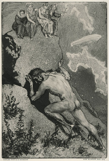 Sisifus (The Faculties) Material: Etching and aquatint Medidas originais: 25x17 cm Detalhe: Carimbado pela coleção Werner Eberhard Müller, Leipzig, Beyer 385